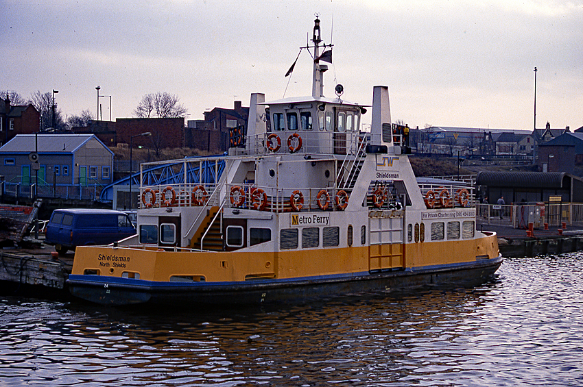 Sheilds ferry Shieldsman at the South Shields terminal on the River Tyne in 1993. Scanned from a Fujichrome 35mm slide.